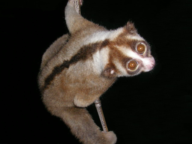 Javan slow loris (Nycticebus javanicus)